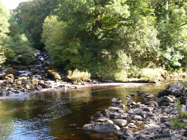 River confluence At this point Bellow Water (on the left) meets Glenmuir Water, forming Lugar Water.